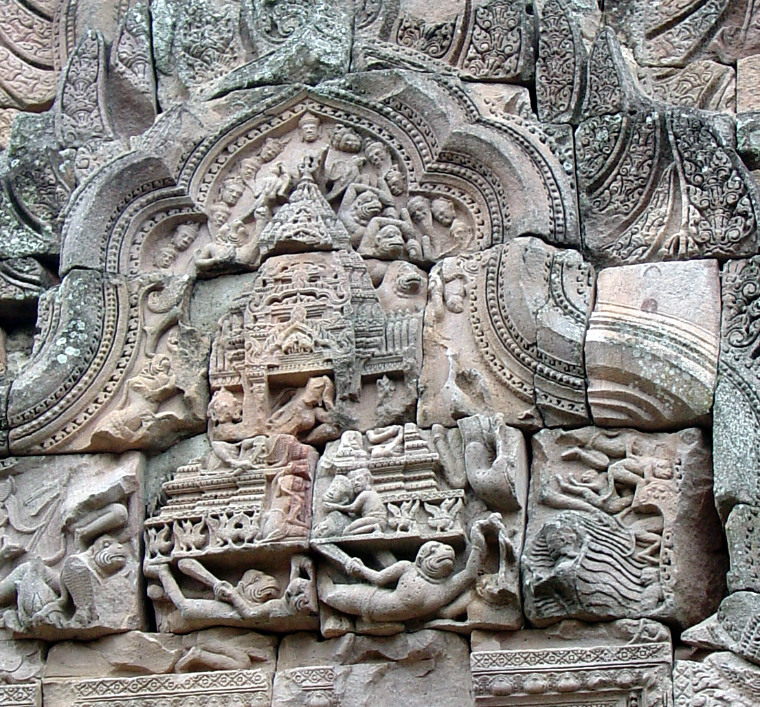 Above the west lintel of the sanctuary is a scene from the Ramayana. The temple shown here is a miniature of Phnom Rung itself, being drawn through the air and surrounded by Hanuman's monkey army and the heads of celestials. Freeman (p.108) identifies this as Ravana's Pushpaka chariot, in which Sita was taken to view the battlefield.